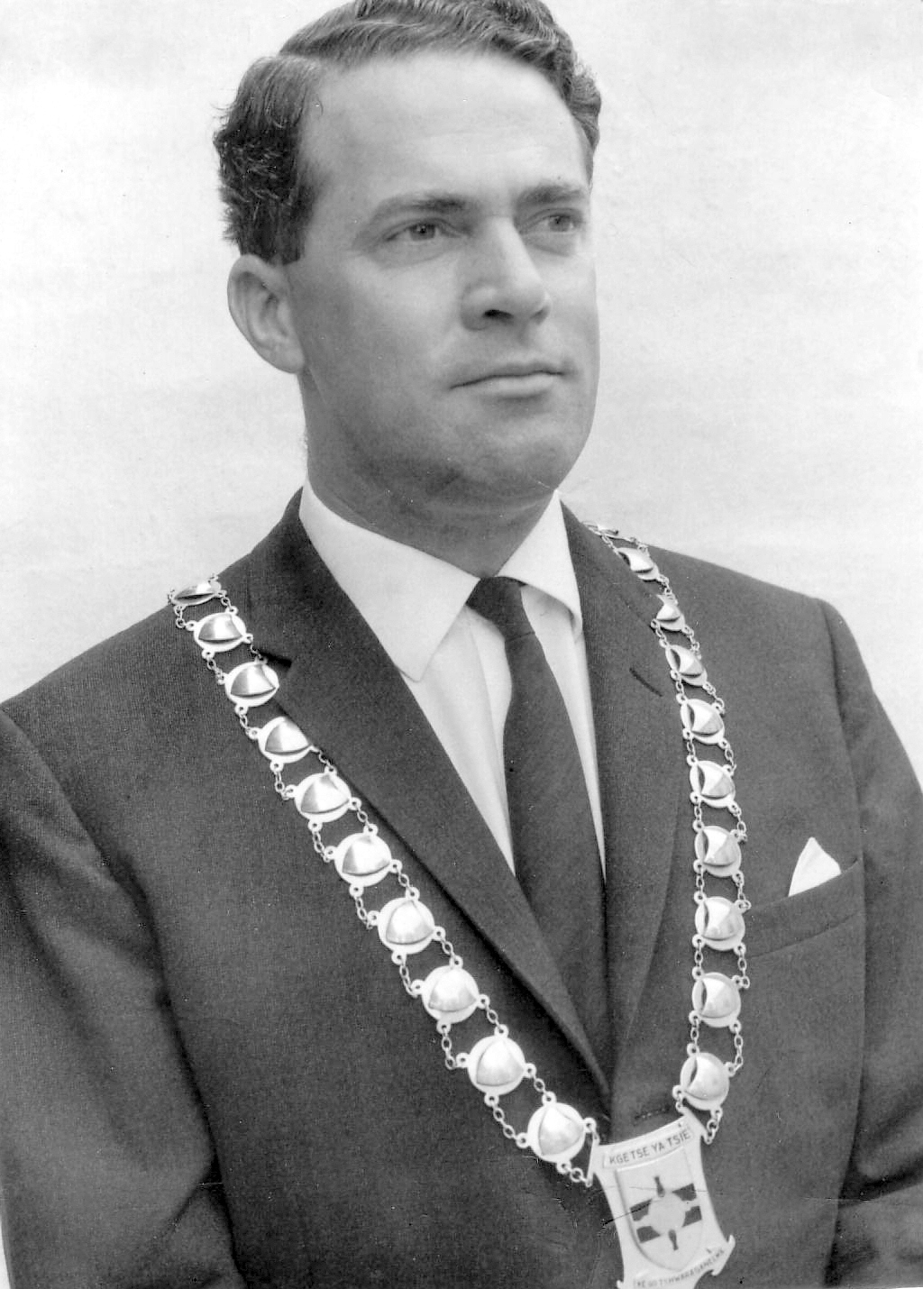 A family photograph of Rev J. D. Jones who was the first mayor of Gaborone, Botswana.